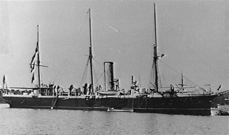 AWM caption : "SYDNEY, NSW. 1900. STARBOARD SIDE VIEW OF THE CRUISER HMS PORPOISE. HER 6 INCH GUNS ARE SWUNG OUT ON THE BEAM. NOTE THE TORPEDO TUBE IN THE STEM"